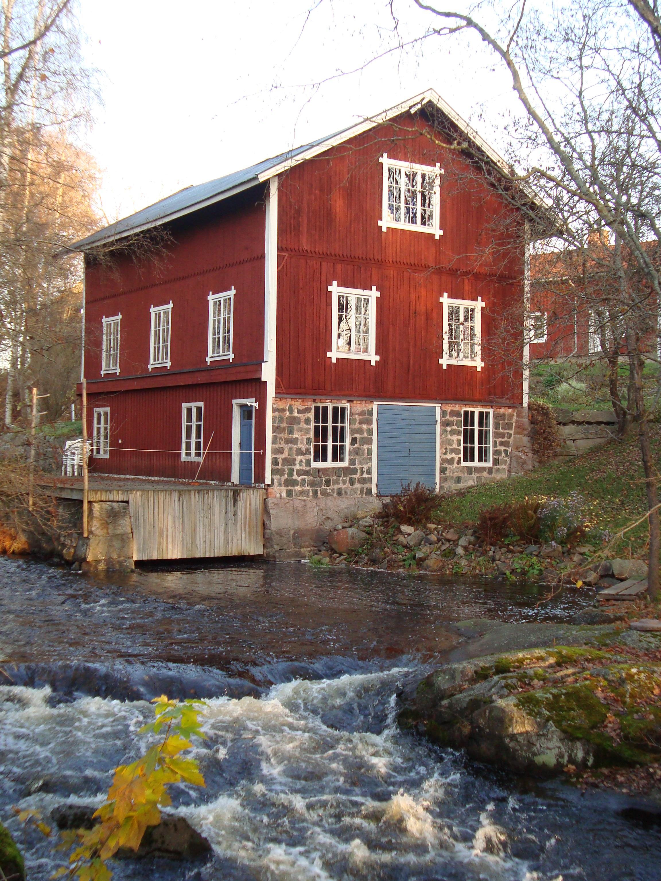 Old mill in Davidshyttan, at stream Lustån, Sweden. Now a residential building.